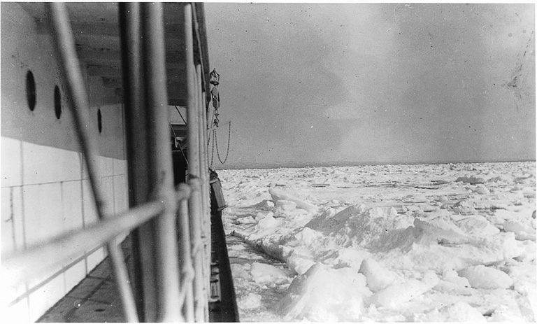 MP-0000.597.27 Icepack, view from deck of ship, 1910-27 Captain George E. Mack 1910-1927, 20th century Notman photographic Archives - McCord Museum MP-0000.597.27 Vue d'une banquise depuis le pont d'un bateau, 1910-1927 Captain George E. Mack 1910-1927, 20e siècle Archives photographiques Notman - Musée McCord To see the image file on the McCord Museum website, click on the following link: Pour voir la fiche descriptive de cette photographie sur le site Web du Musée McCord, cliquer le lien suivant